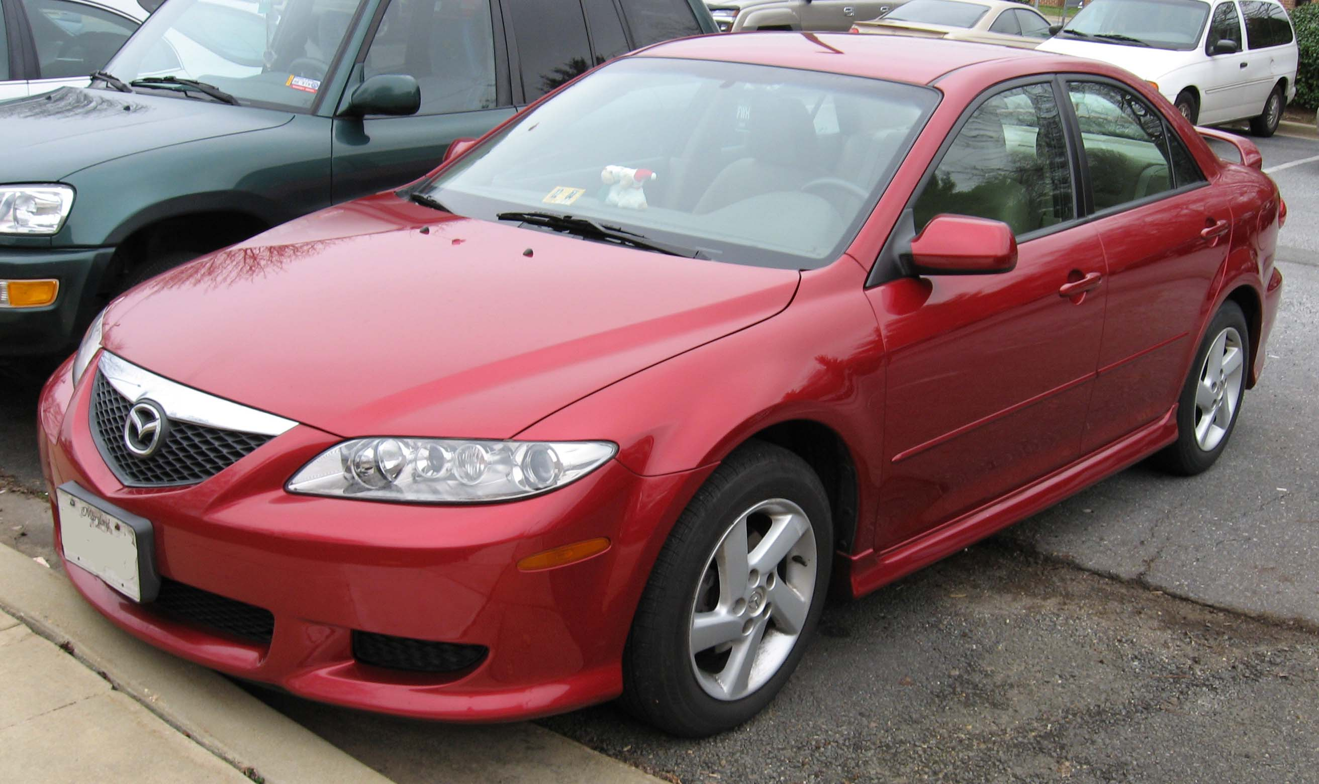 2003-2005 Mazda6 photographed in USA.